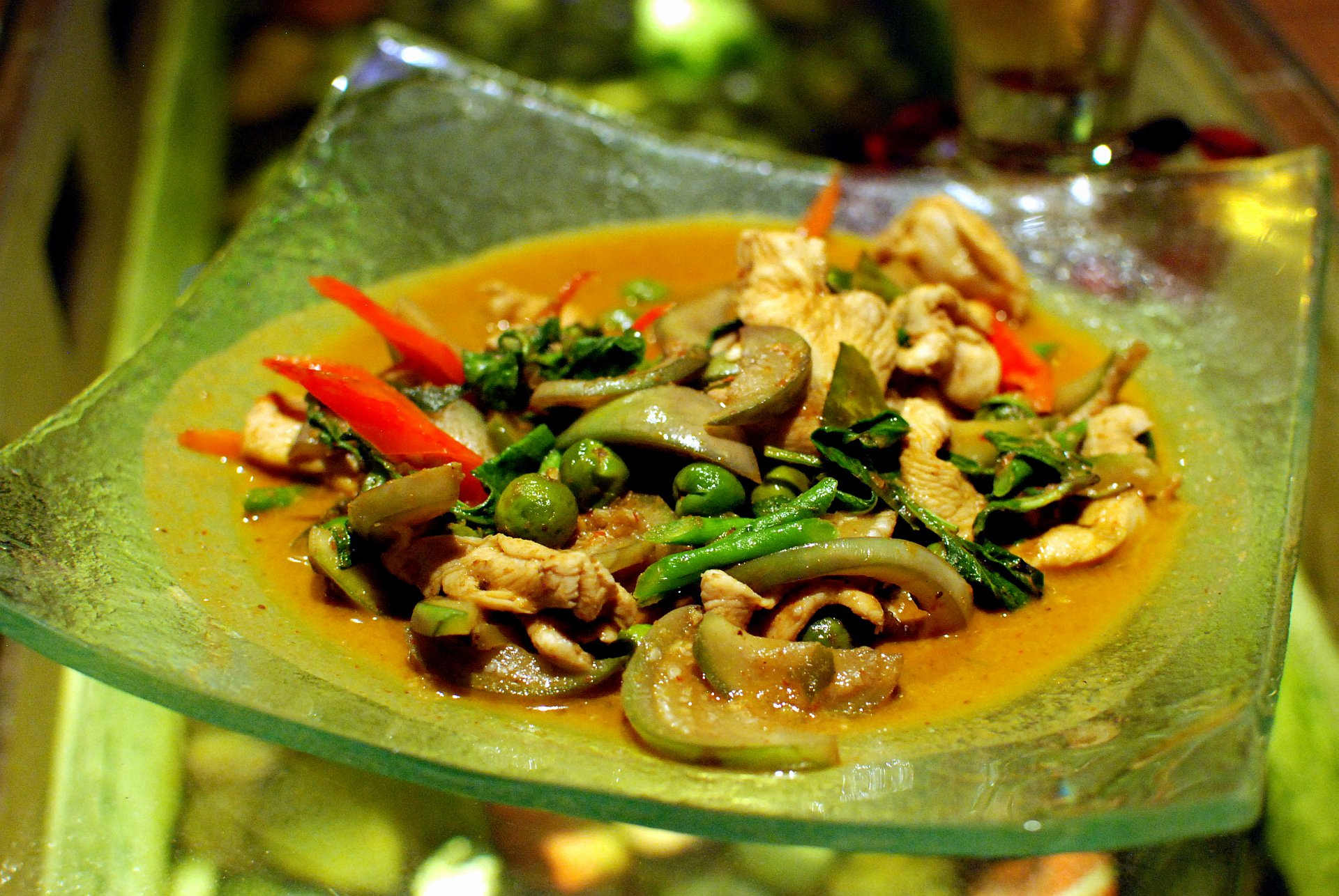 Kaeng phet kai (haeng) (Thai: แกงเผ็ดไก่ [แห้ง]): (Dry) red chicken curry. In Chiang Mai, curries tend to be more "soupy" than elsewhere in Thailand so this is the Chiang Mai version of a drier style of red curry. It contains chicken, red curry paste, coconut milk, two types of aubergine (sliced ping pong ball sized aubergines and whole pea sized aubergines), holy basil, kaffir lime leaves, yardlong beans and sliced chillies.